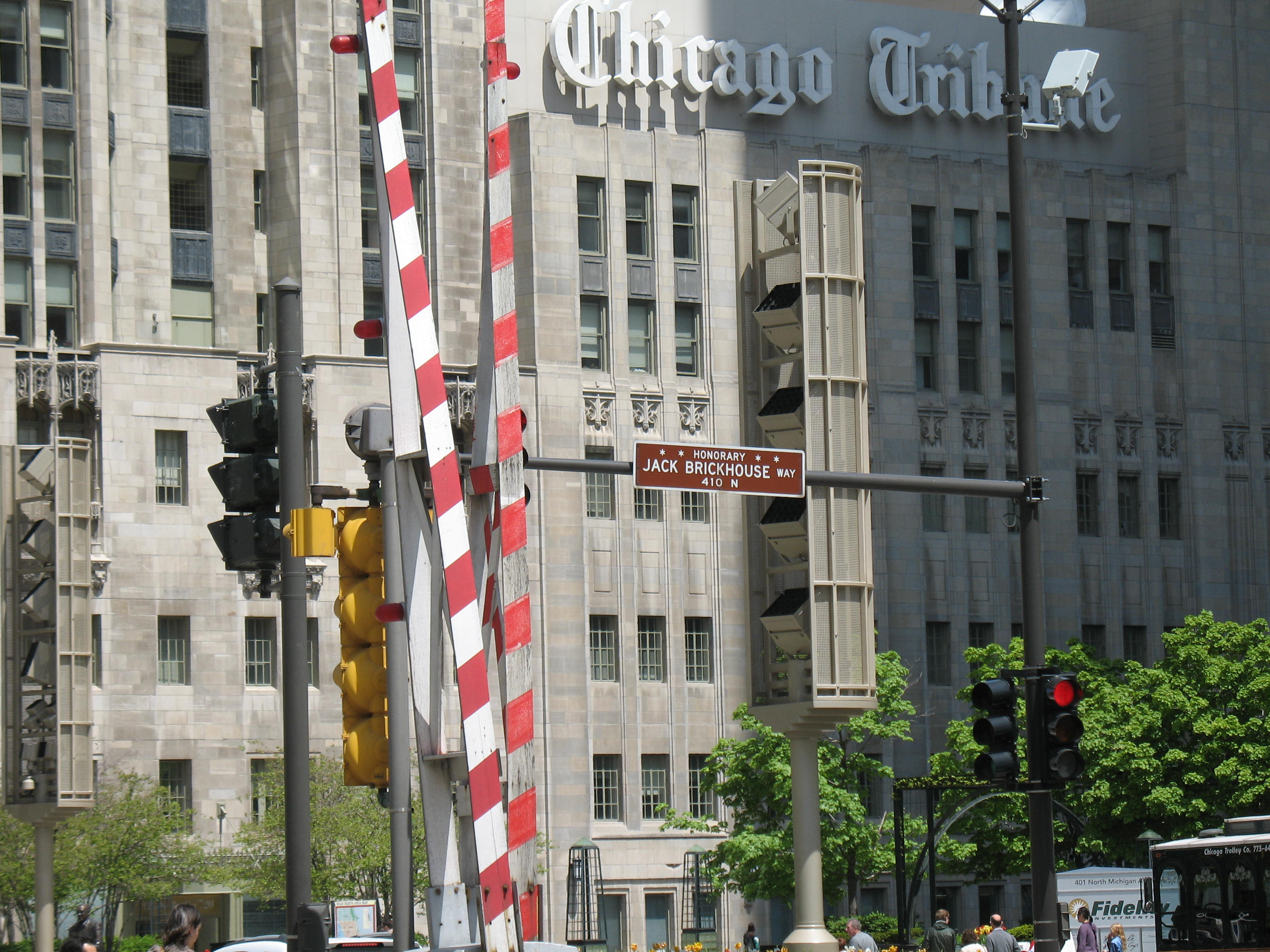 Jack Brickhouse Way